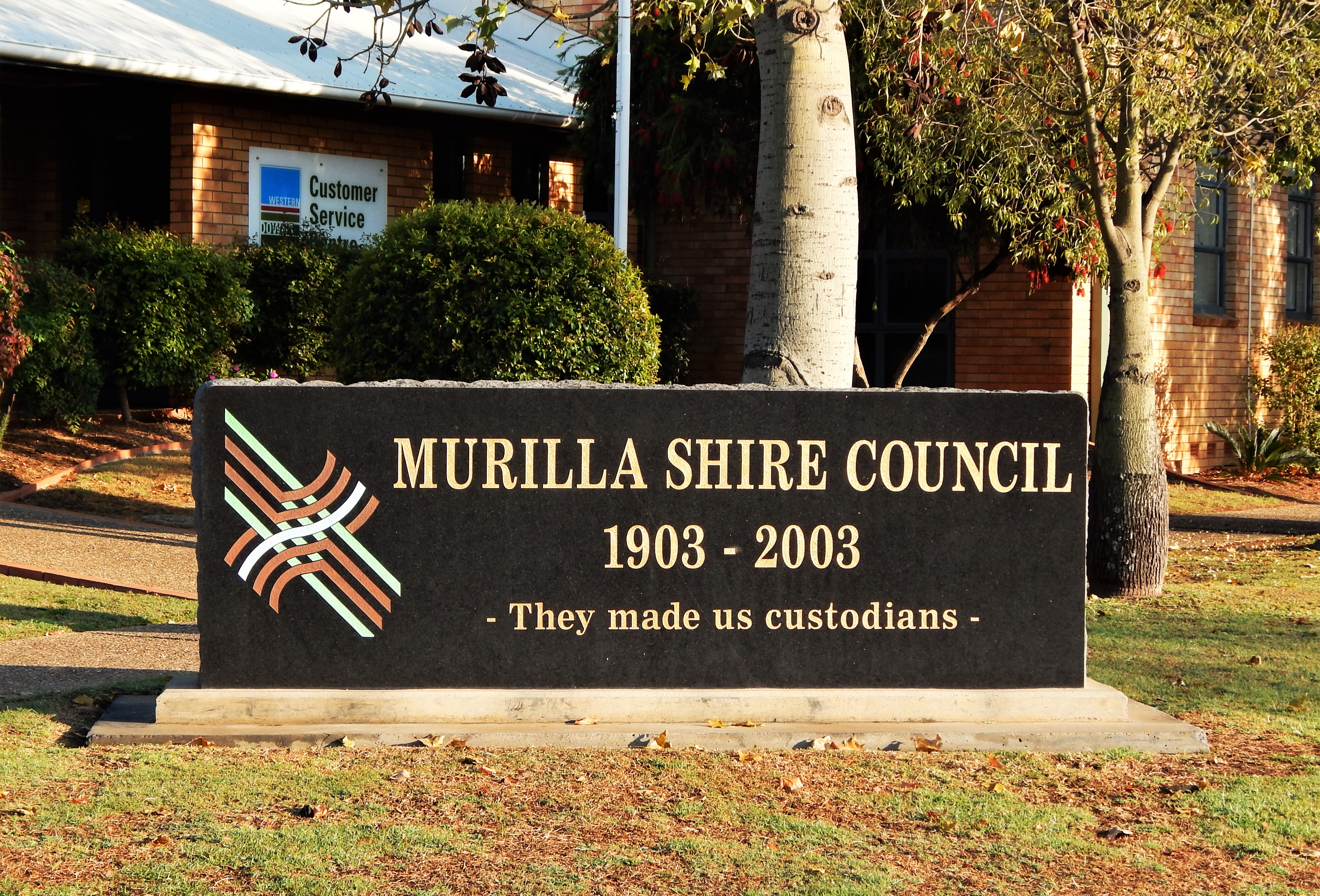 The monument outside the Murilla Shire Council offices in Miles, Queensland which was unveiled on 31 March 2003 by local state MP Nita Cunningham to commemorate the 100th anniversary of Murilla Shire Council's founding.